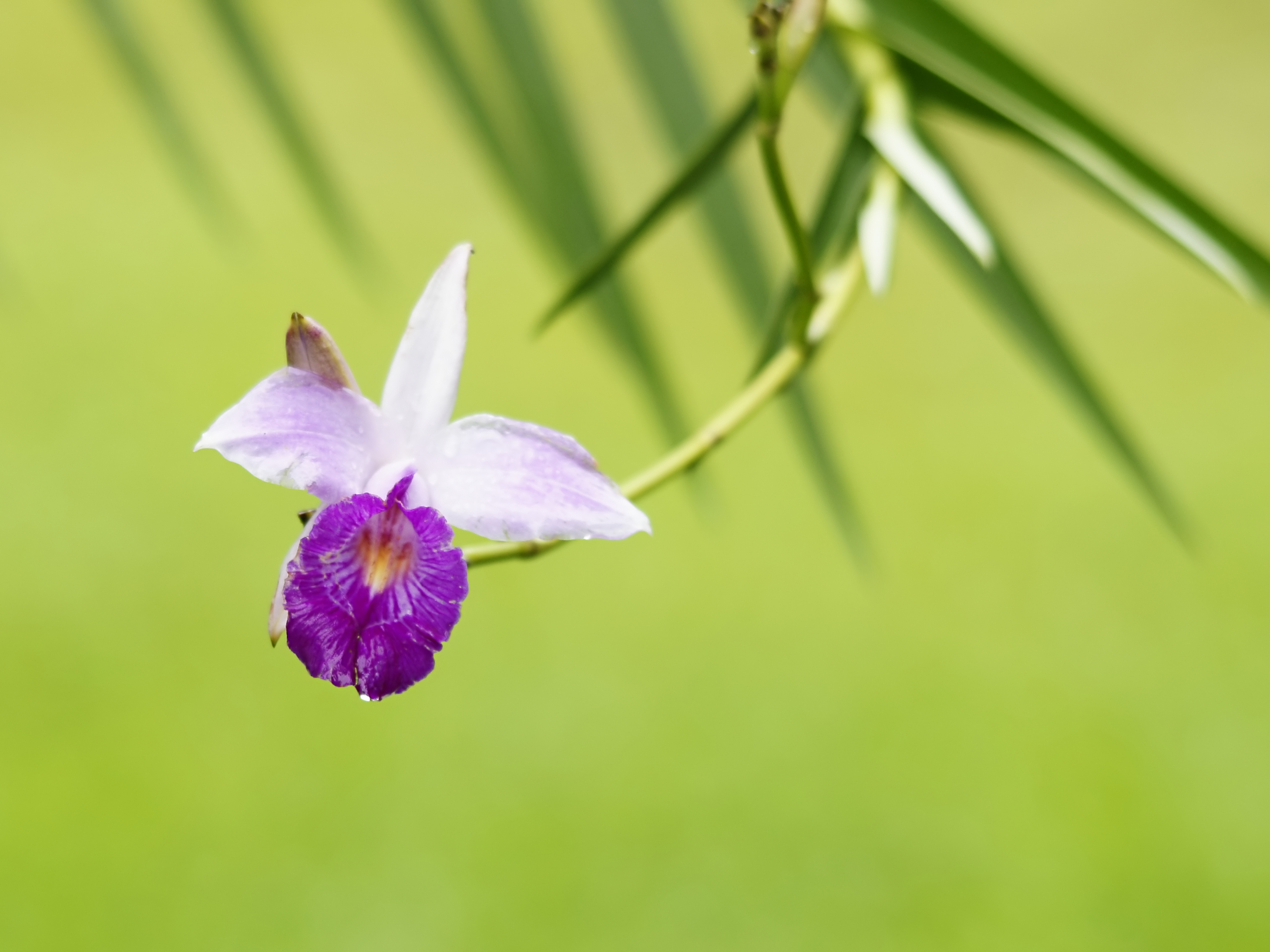 Bamboo orchid at Puerto Viejo de Sarapiqui, Costa Rica